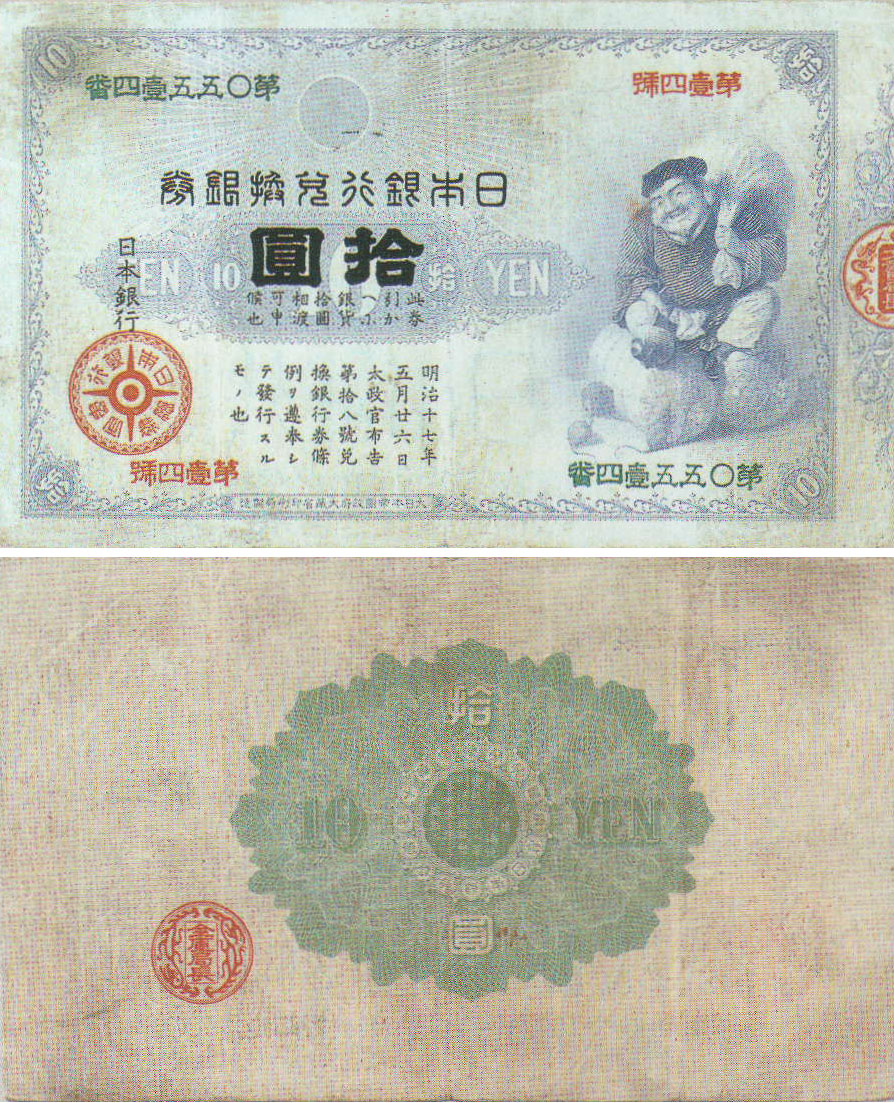 ten yen convertible banknote (1885)